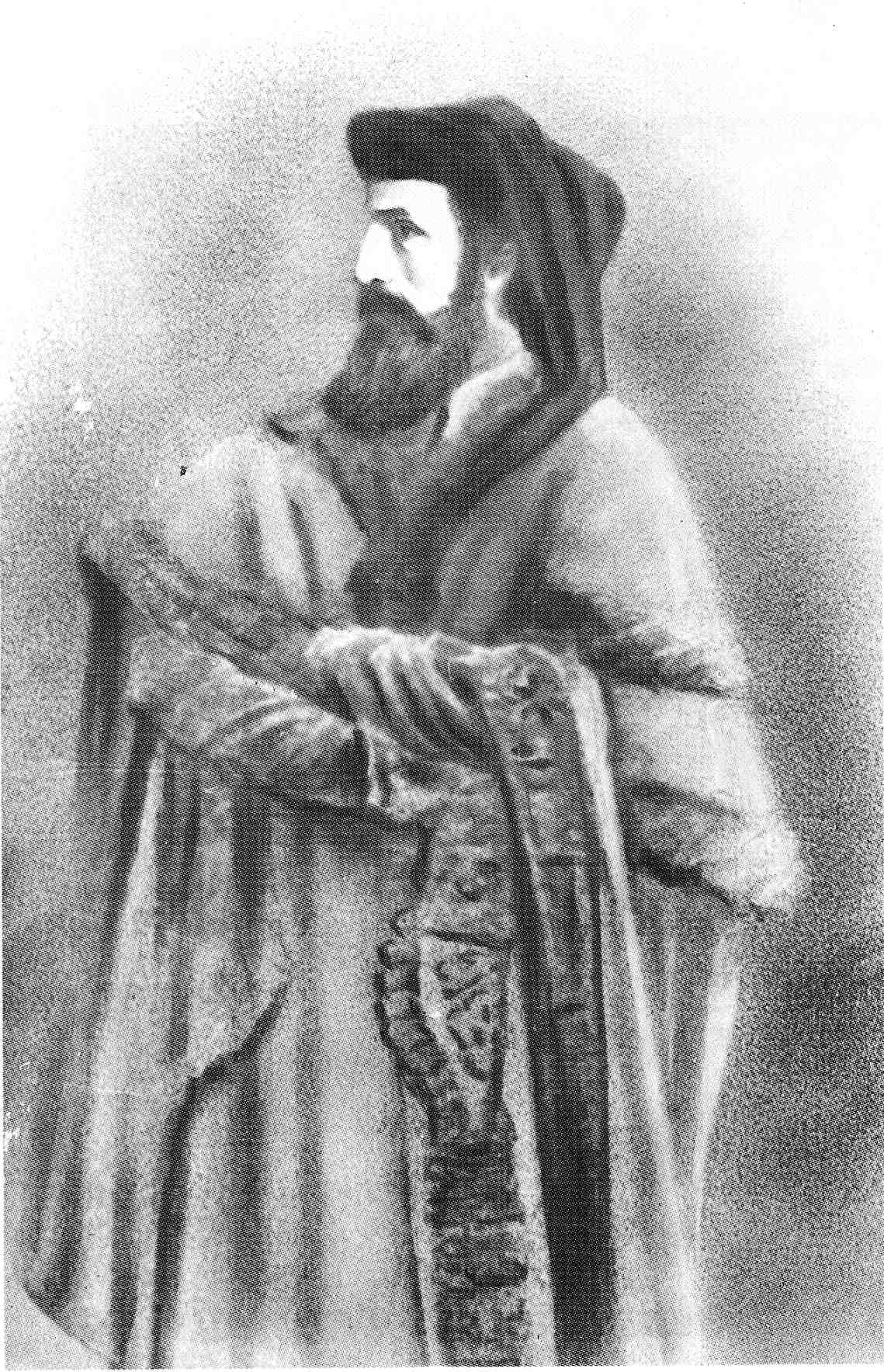 Portrait de Matthias Ringmann, humaniste alsacien, par Gaston Save